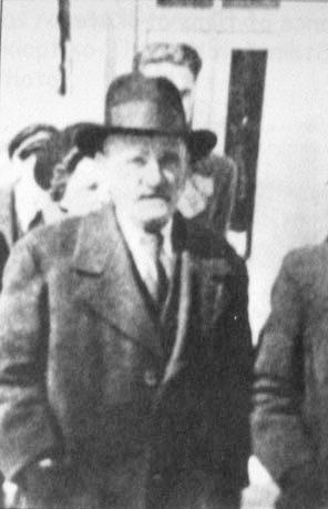 Konstantin Chomu at the street in Bitola town